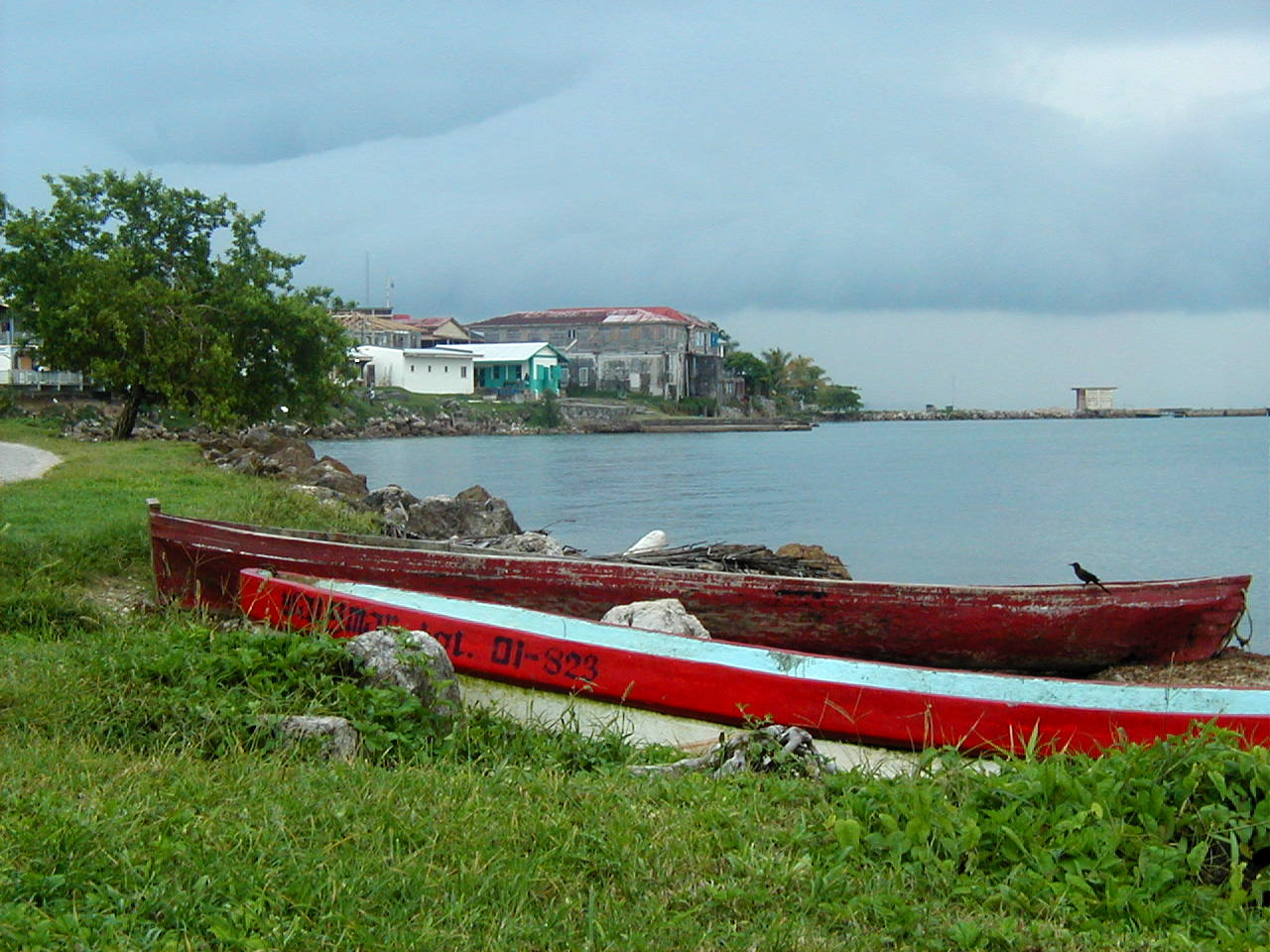 Boats rest on the shore in Punta Gorda, Belize. Photo by Gerry Manacsa, February 2002. 00:40, 14 April 2005 Gmanacsa 1280x960 (427485 bytes) (Boats rest on the shore in Punta Gorda, Belize. Photo by Gerry Manacsa, February 2002. cc-by-sa-2.0 )